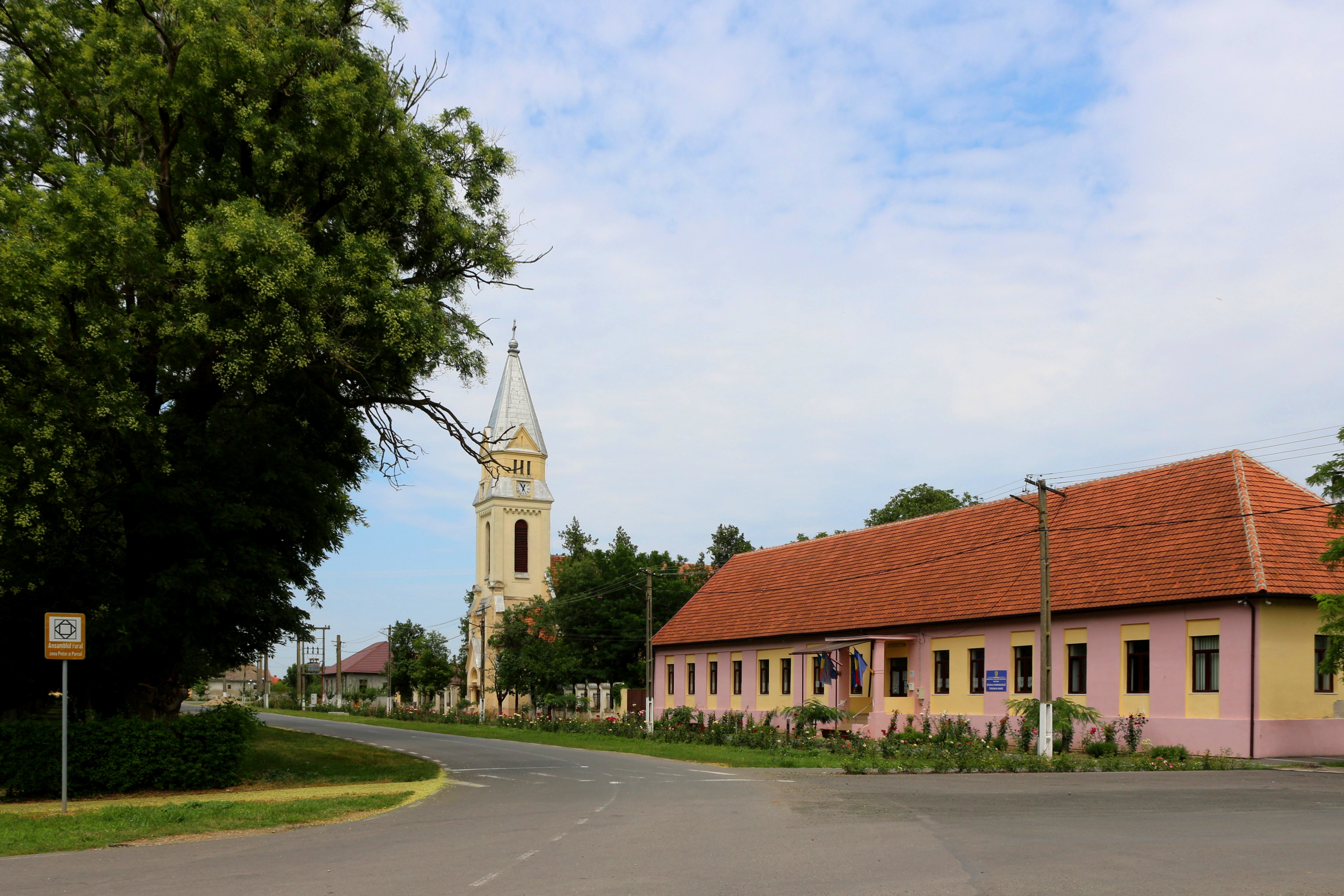 The historical rural ensemble of the Market area and the Park, Teremia Mare, Județul Timiș, Romania.